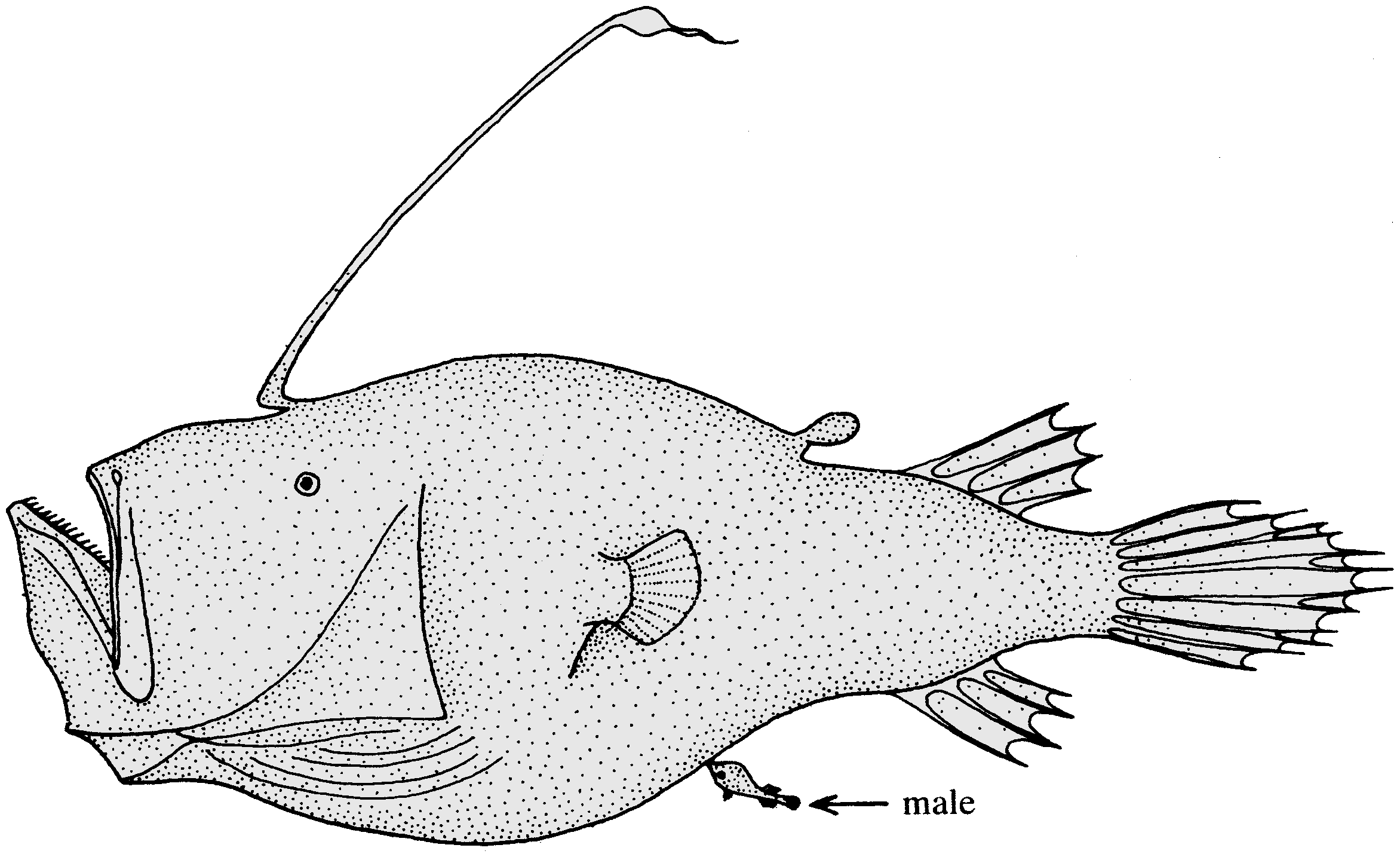 Cryptopsaras couesii File:Cryptopsaras couesii triplewart seadevil.svg is a vector version of this file. It should be used in place of this raster image when not inferior. File:Cryptopsaras couesii (triplewart seadevil).png File:Cryptopsaras couesii triplewart seadevil.svg For more information, see Help:SVG. In other languages